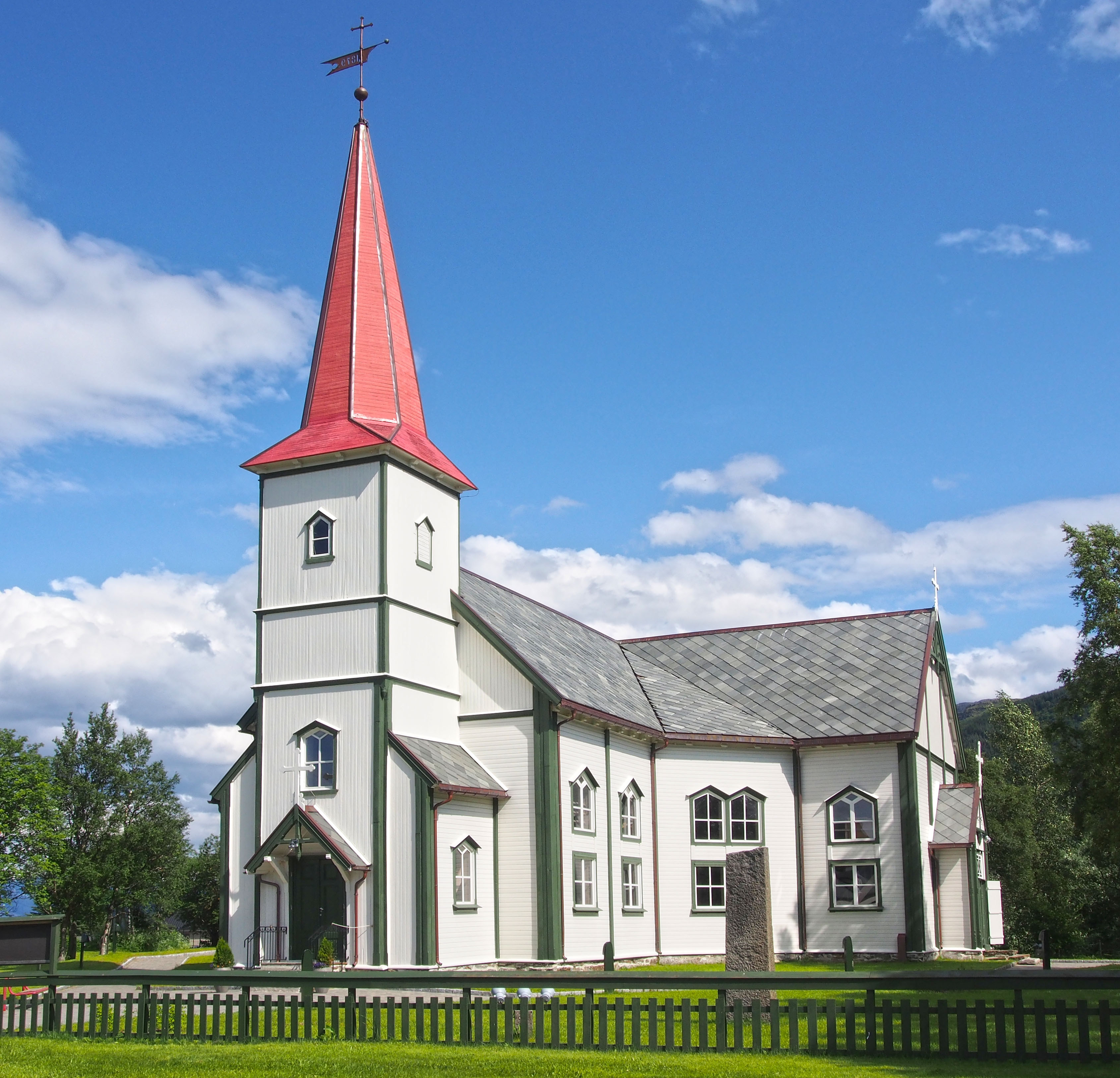 Nesna church